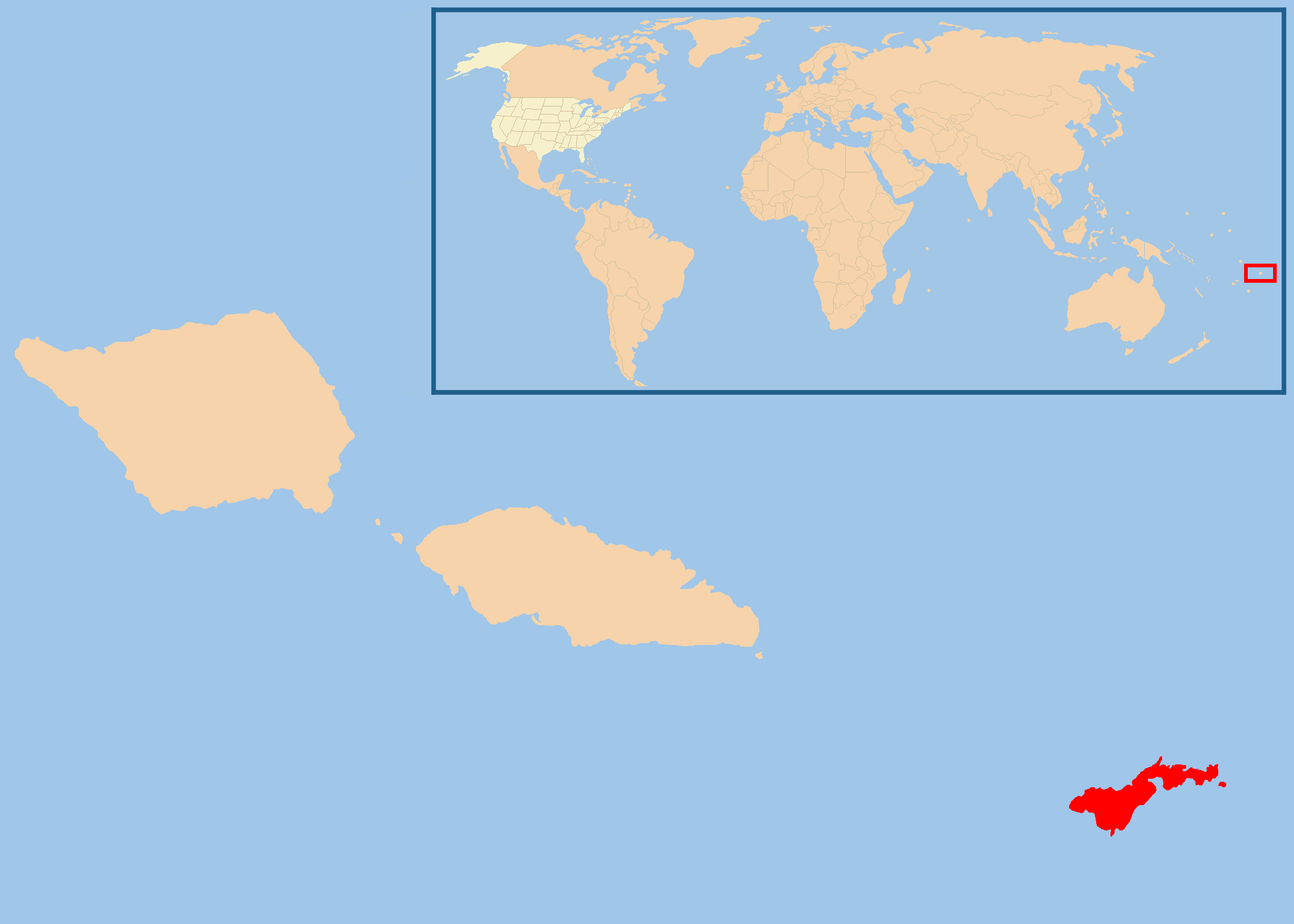 Map of USA highlight American Samoa